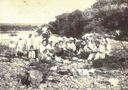 Japanese inhabitants of Etorofu (called Iturup by the Russians) at a riverside picnic in 1933.